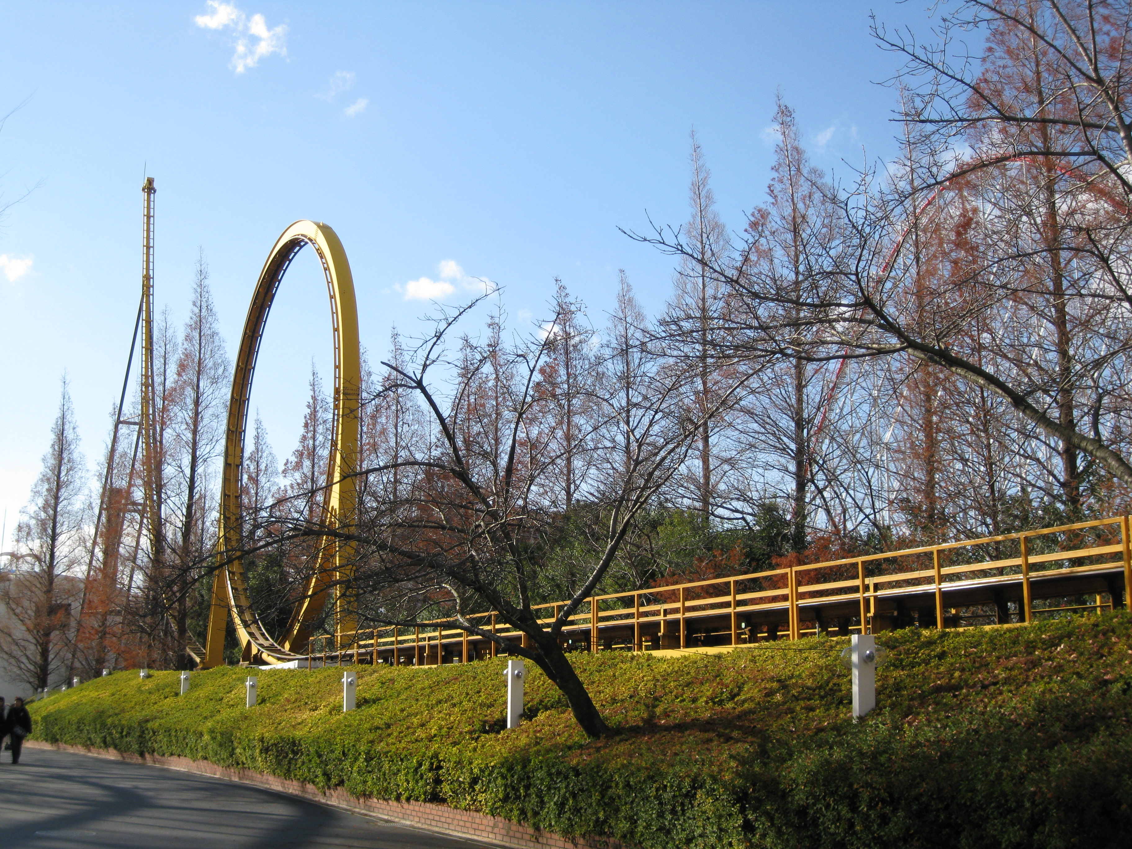 Nagashima Spa Land 07